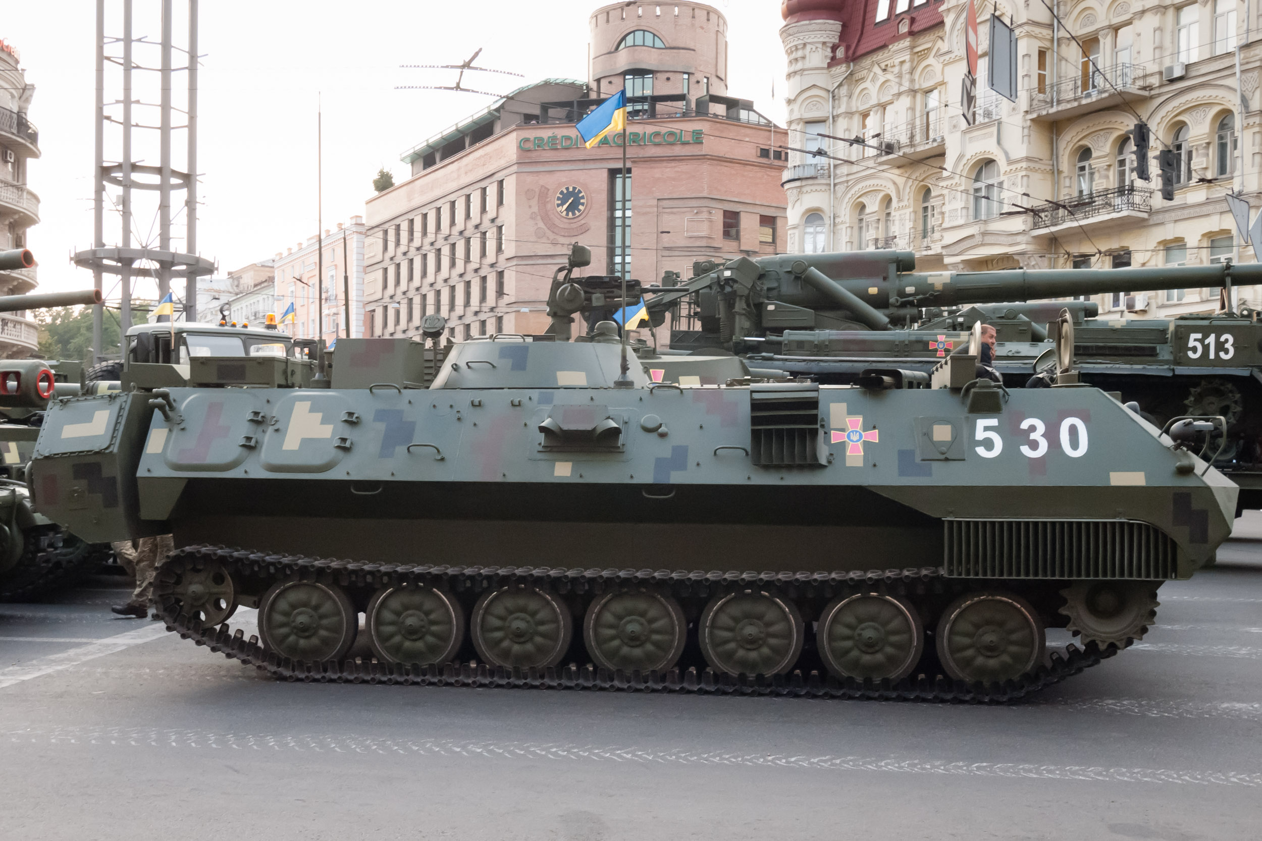 1V25-1 Obolon-A artillery command vehicle, rehearsal for the Independence Day military parade in Kyiv, 2018